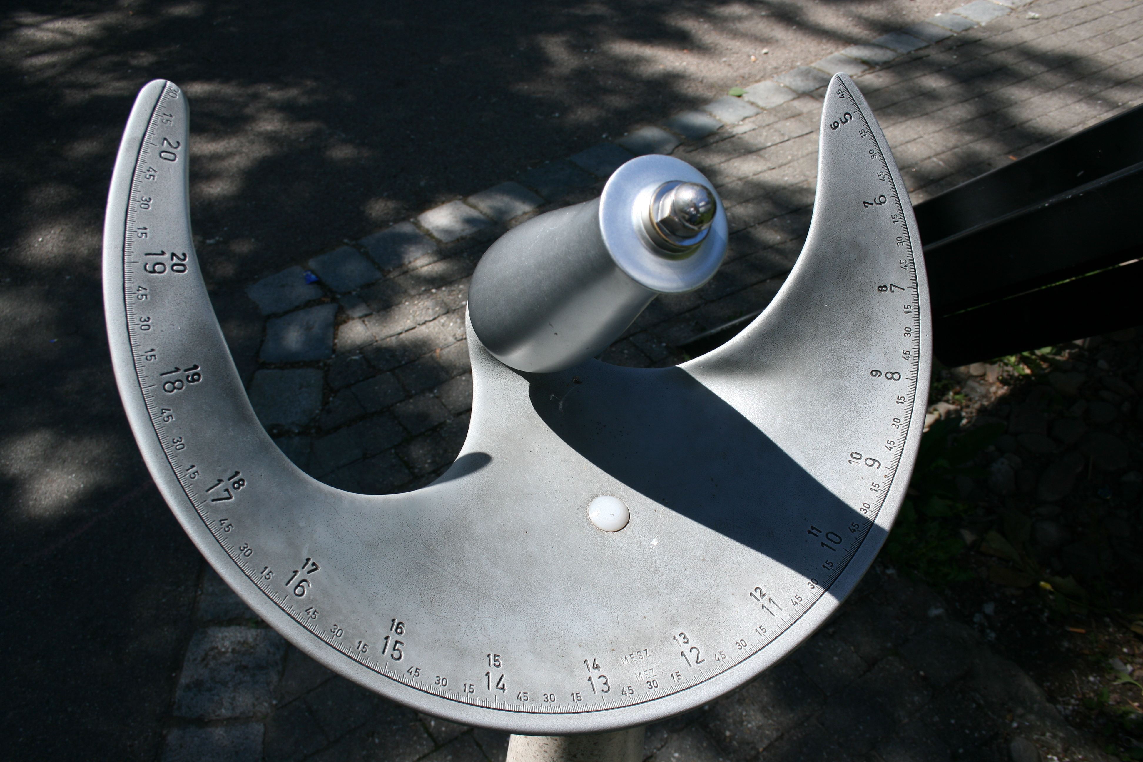 Precision Sundial at the Carl Zeiss Planetarium in Stuttgart